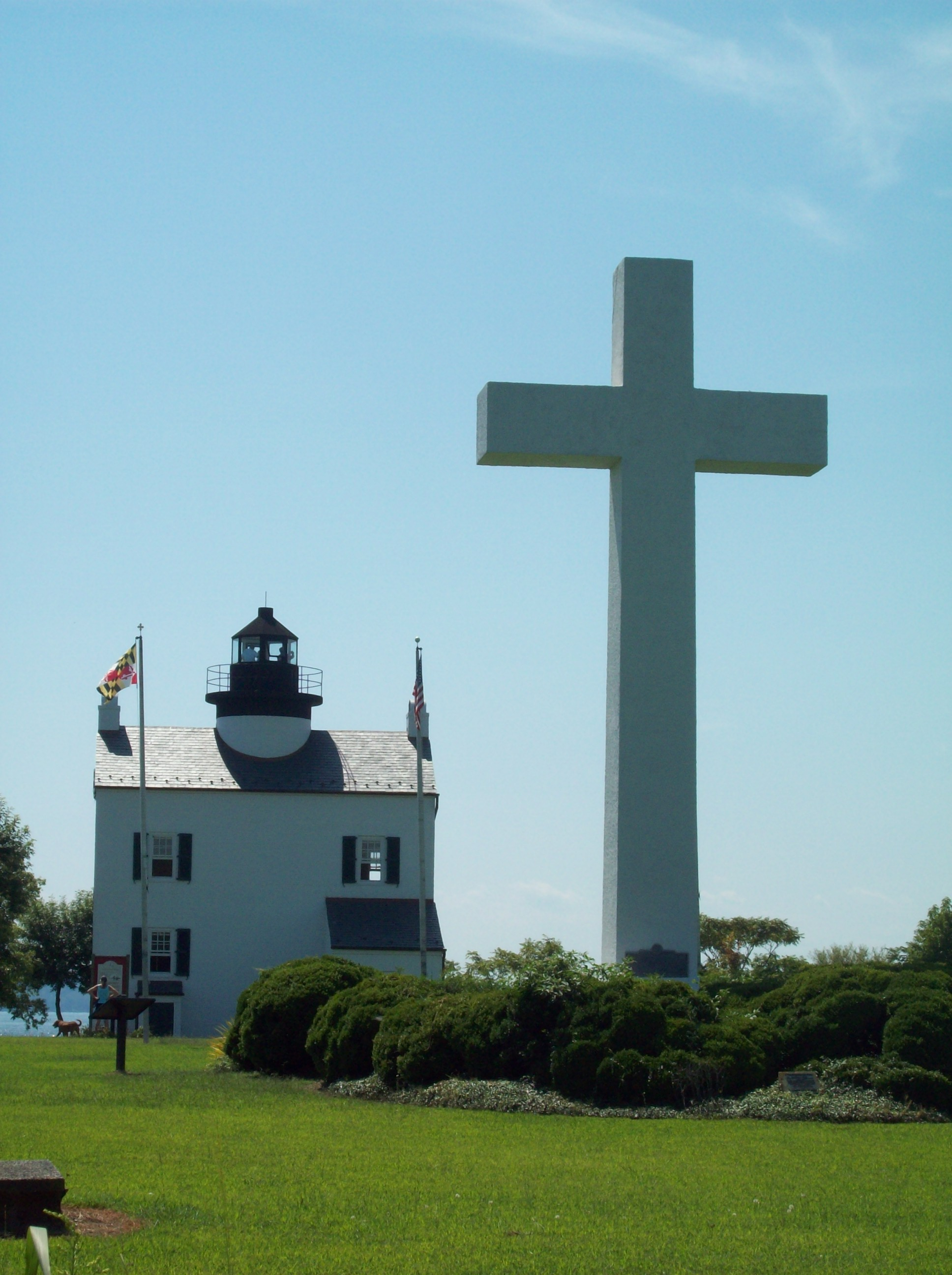 Commemorative Cross and Rebuilt Blackistone Lighthouse, September 2009